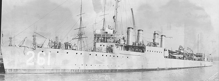 The U.S. Navy destroyer USS Delphy (DD-261) at the Boston Navy Yard, Charlestown, Massachusetts (USA), 28 October 1919. Note the open face of this destroyer's pilothouse.